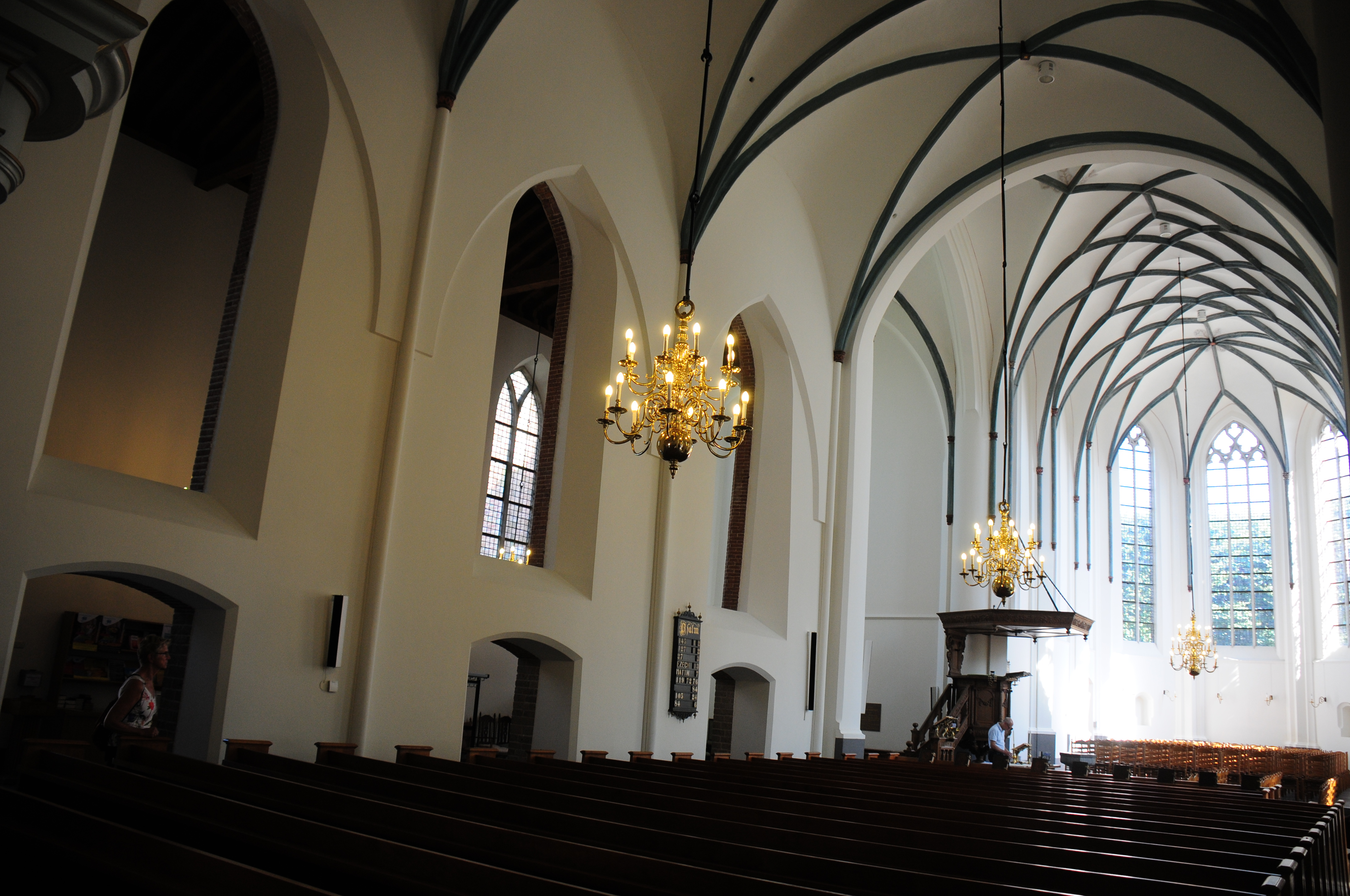 Interior of the Protestant church at Ede